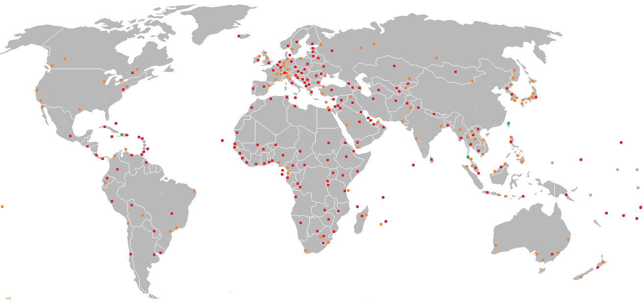 Indicates Chinese embassies (red), consulates and delegations to international missions (orange) and representative offices in countries where formal bilateral relations do not exist (green)